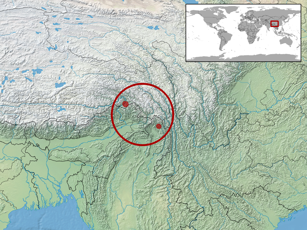 geographic distribution of Protobothrops kaulbacki (Native: China; Myanmar)